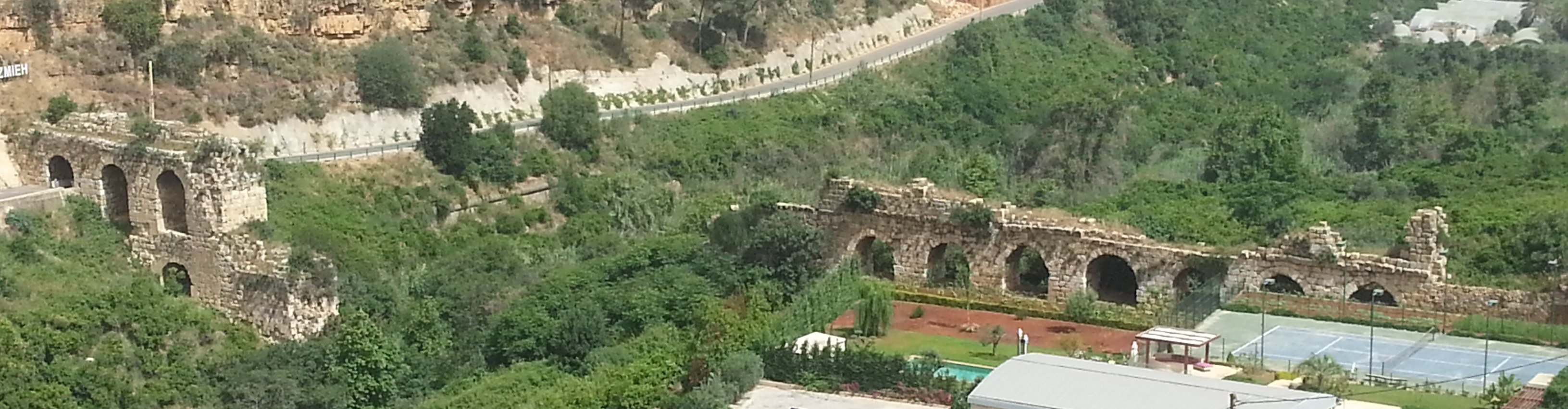 Picture taken from Bellevue Medial Center